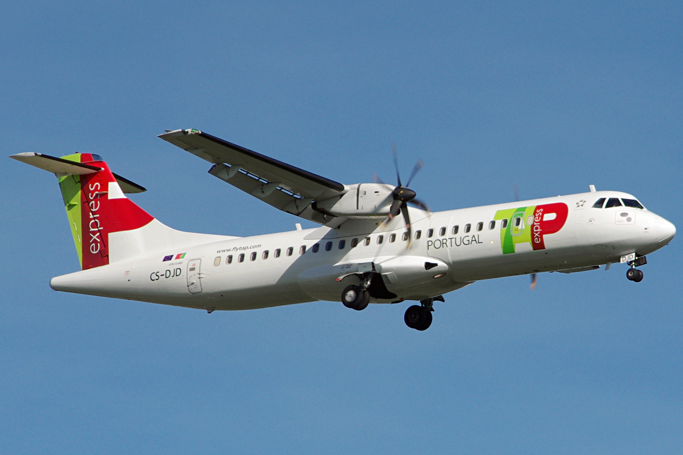 ATR 72 of TAP Express at Bilbao Airport.